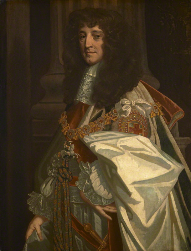 Prince Rupert of the Rhine